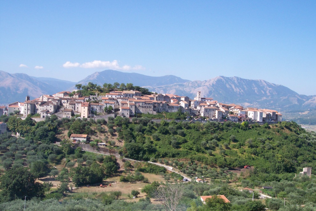 Atena Lucana seen from the eastern side